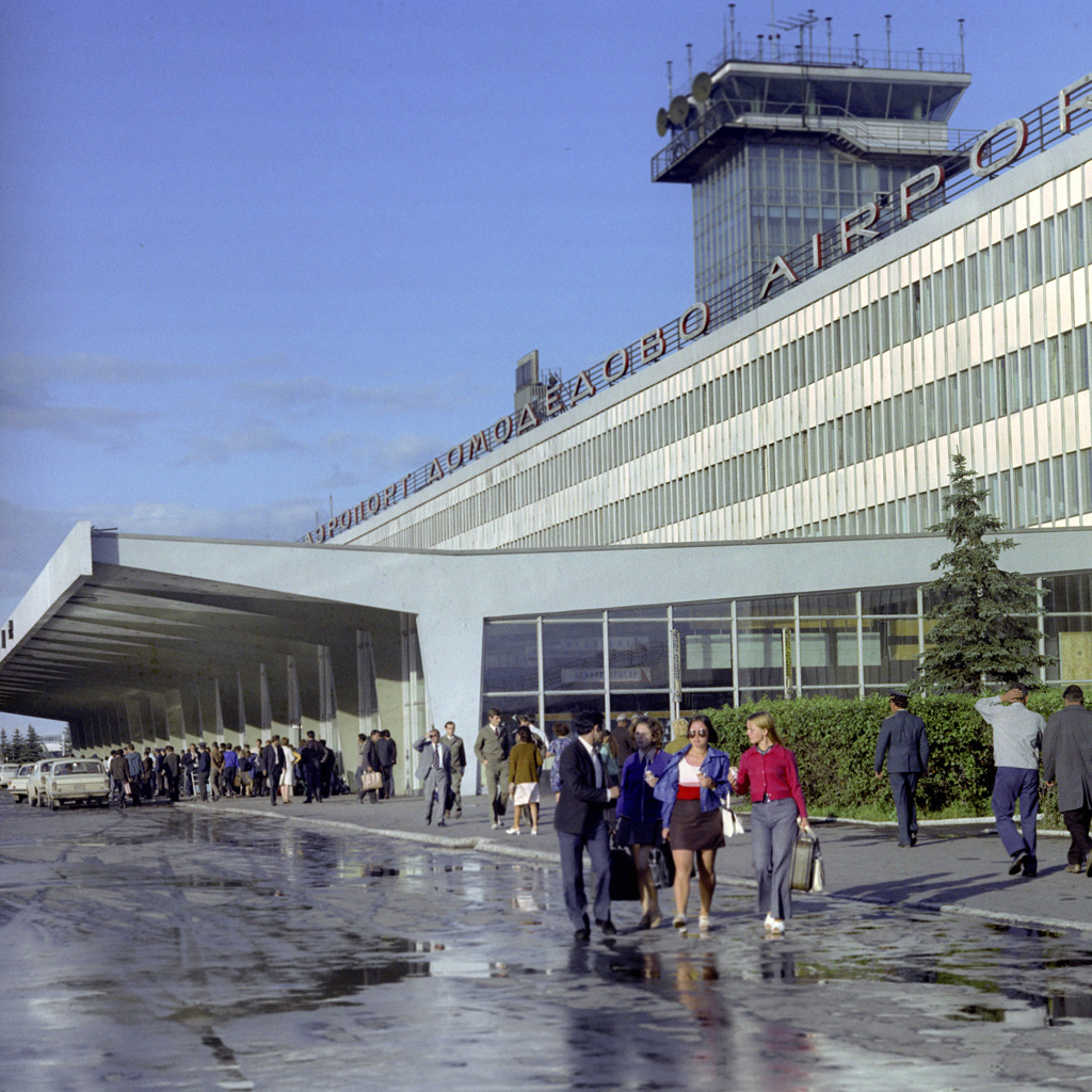 “Domodedovo airport”. Passenger-terminal building at Moscow's Domodedovo airport.